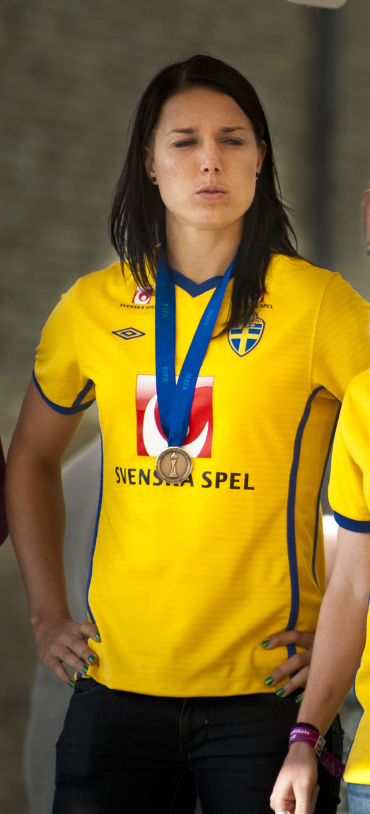 After Women´s world footballs cup in Germany 2011